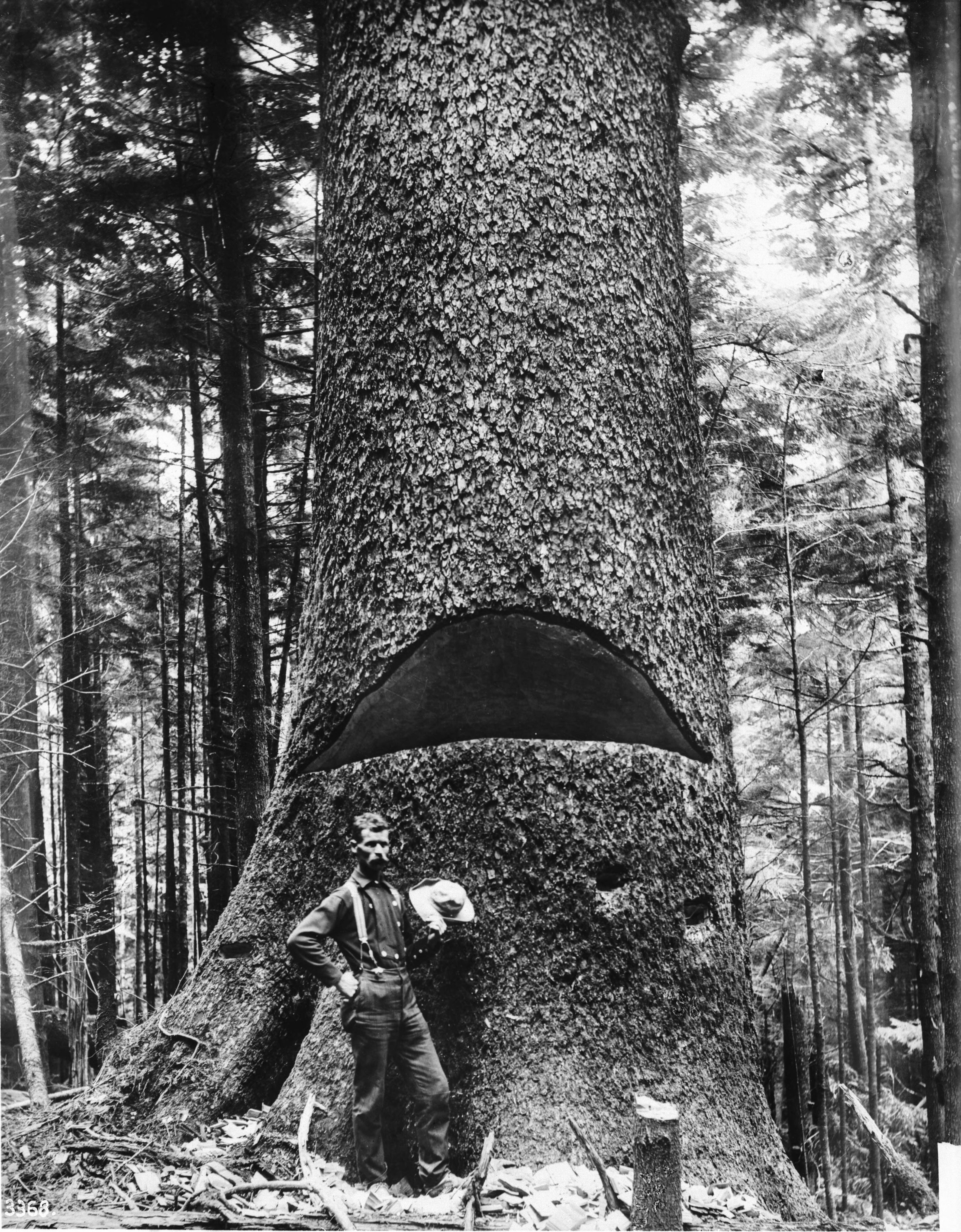 A lumberjack standing at the base of a huge tree showing a cut in the tree, ca.1900 Photograph of a lumberjack standing beneath a huge cut sliced out of a large tree, ca.1900. He fans his face with his hat in his left hand, while his right hand is fisted against his right hip. He has a handlebar moustache. At his feet lay large chips of wood from the cut. Several small chinks are chopped out of the trunk below the cut to provide footholds for the wood cutter. The forest is in the background. Call number: CHS-3368 Filename: CHS-3368 Coverage date: circa 1900 Part of collection: California Historical Society Collection, 1860-1960 Format: glass plate negatives Type: images Part of subcollection: Title Insurance and Trust, and C.C. Pierce Photography Collection, 1860-1960 Repository name: USC Libraries Special Collections Accession number: 3368 Microfiche number: 1-108-17 Archival file: chs_Volume77/CHS-3368.tiff Repository address: Doheny Memorial Library, Los Angeles, CA 90089-0189 Subject (adlf): forests Geographic subject (country): USA Format (aacr2): 2 photographs : glass photonegative, photoprint, b&w ; 22 x 17 cm. Rights: Digitally reproduced by the USC Digital Library; From the California Historical Society Collection at the University of Southern California Project: USC Repository Contributing entity: California Historical Society Date created: circa 1900 Publisher (of the digital version): University of Southern California. Libraries Format (aat): photographic prints; photographs Geographic subject (state): California Legacy record ID: chs-m12165; USC-1-1-1-12318 Access conditions: Send requests to address or e-mail given. Phone (213) 821-2366; fax (213) 740-2343. Subject (file heading): Industry -- Lumbering Subject (lcsh): Lumber; Forests and forestry; Wood products